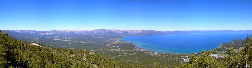 Panorama of Lake Tahoe and surroundings from the Heavenly Gondola observation deck, July 1, 2007.